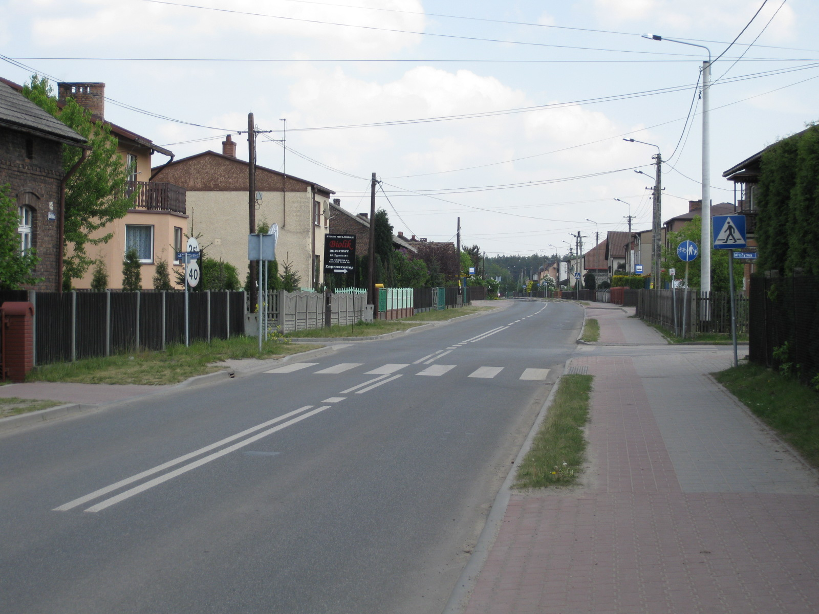 Ulica Jedlińska in Bojszowy, Silesian Voivodeship, Poland